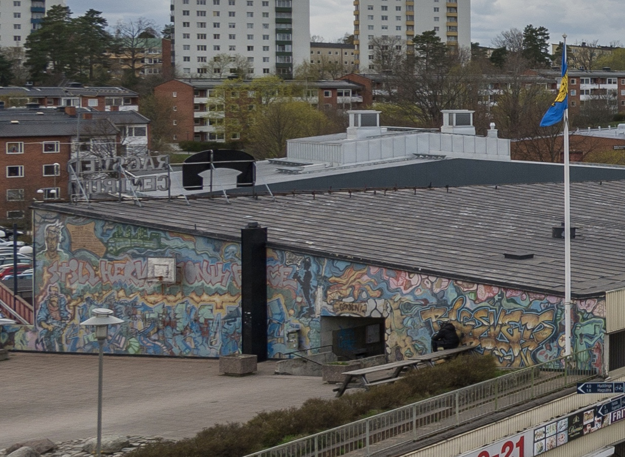 The graffiti wall Highway from 1989, in Rågsved, Stockholm, Sweden.